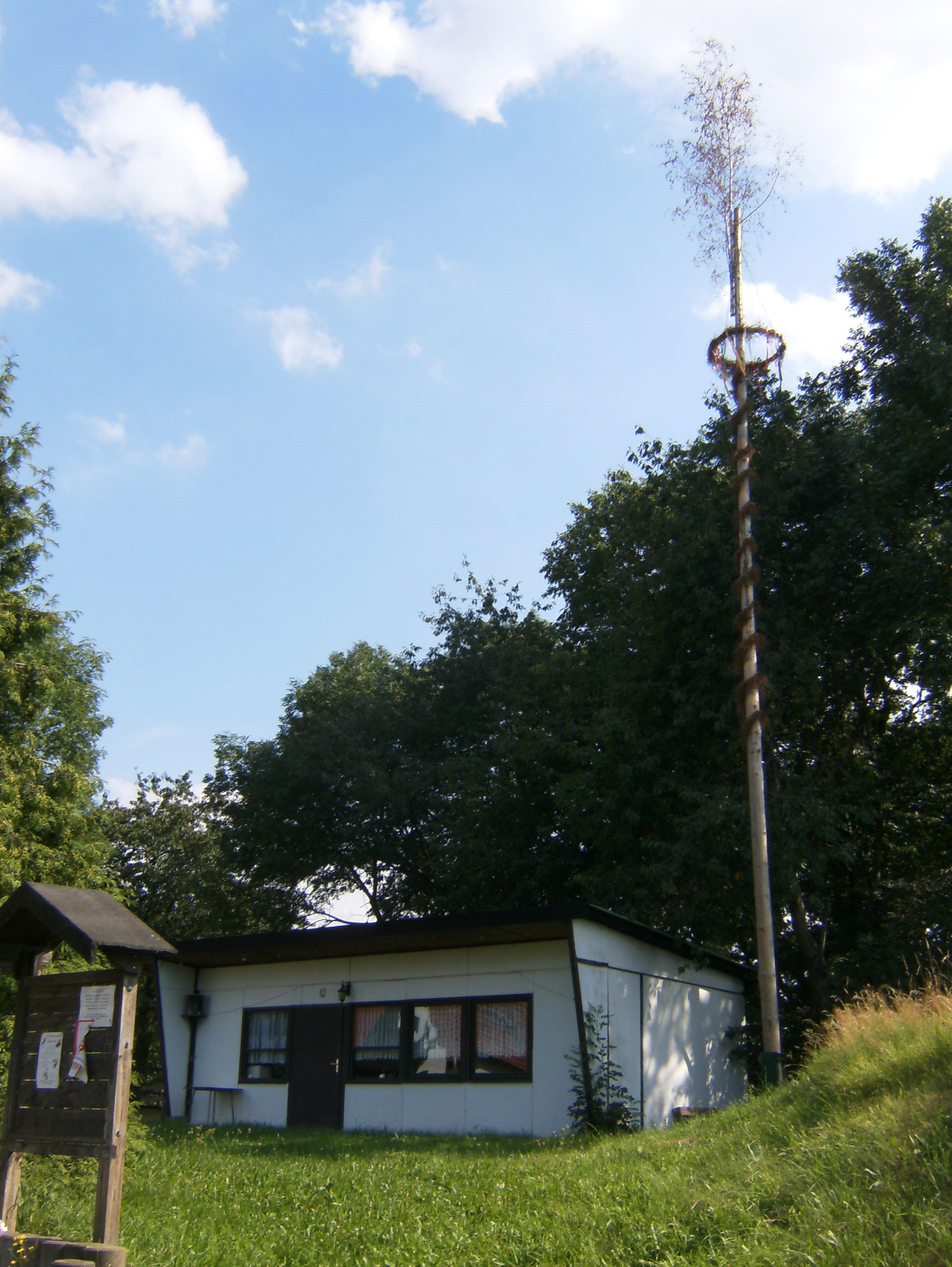 Selingenstädt, village club.